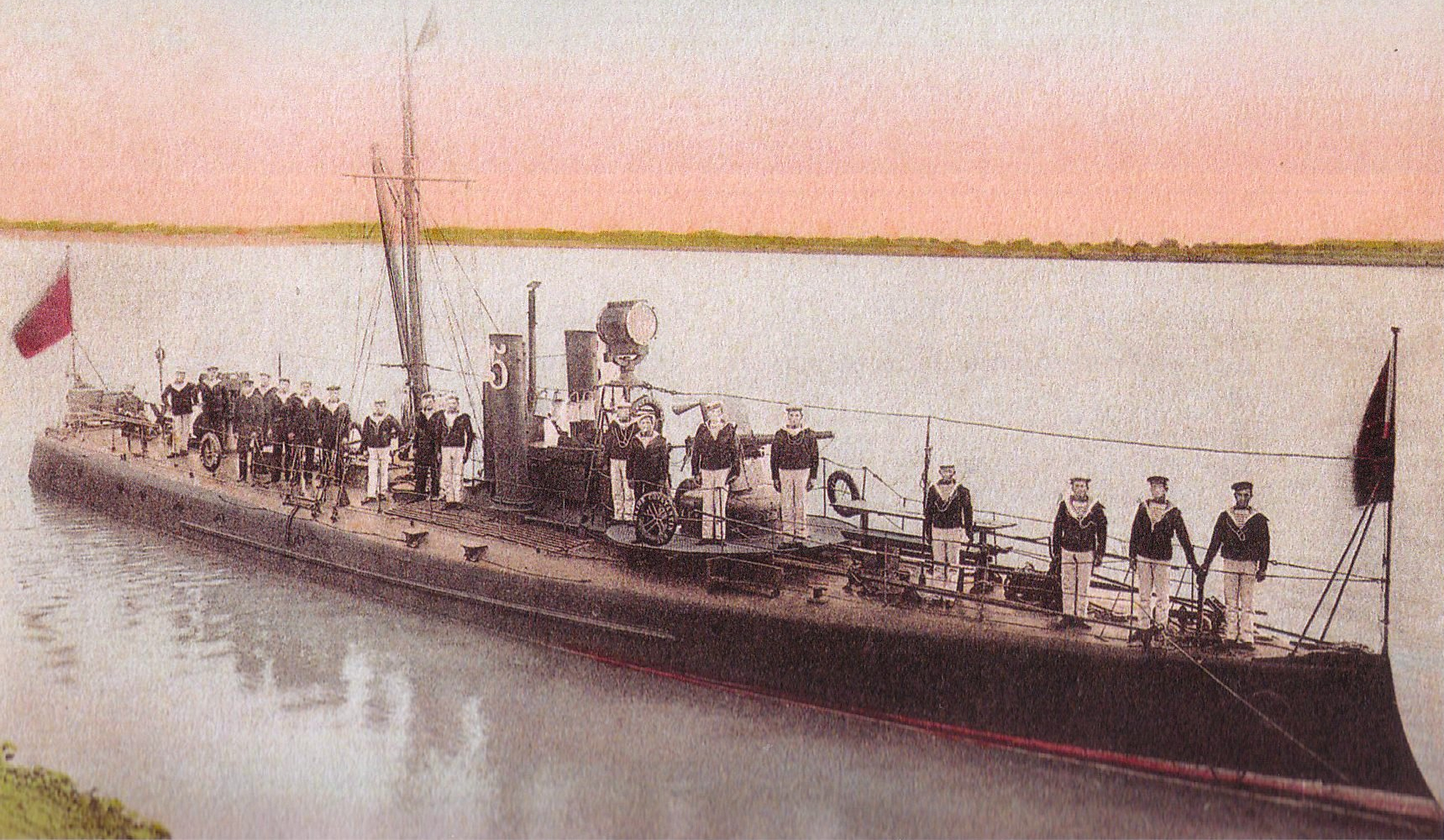 A Romanian river boat of the Căpitan Nicolae Lascăr Bogdan class at Galați